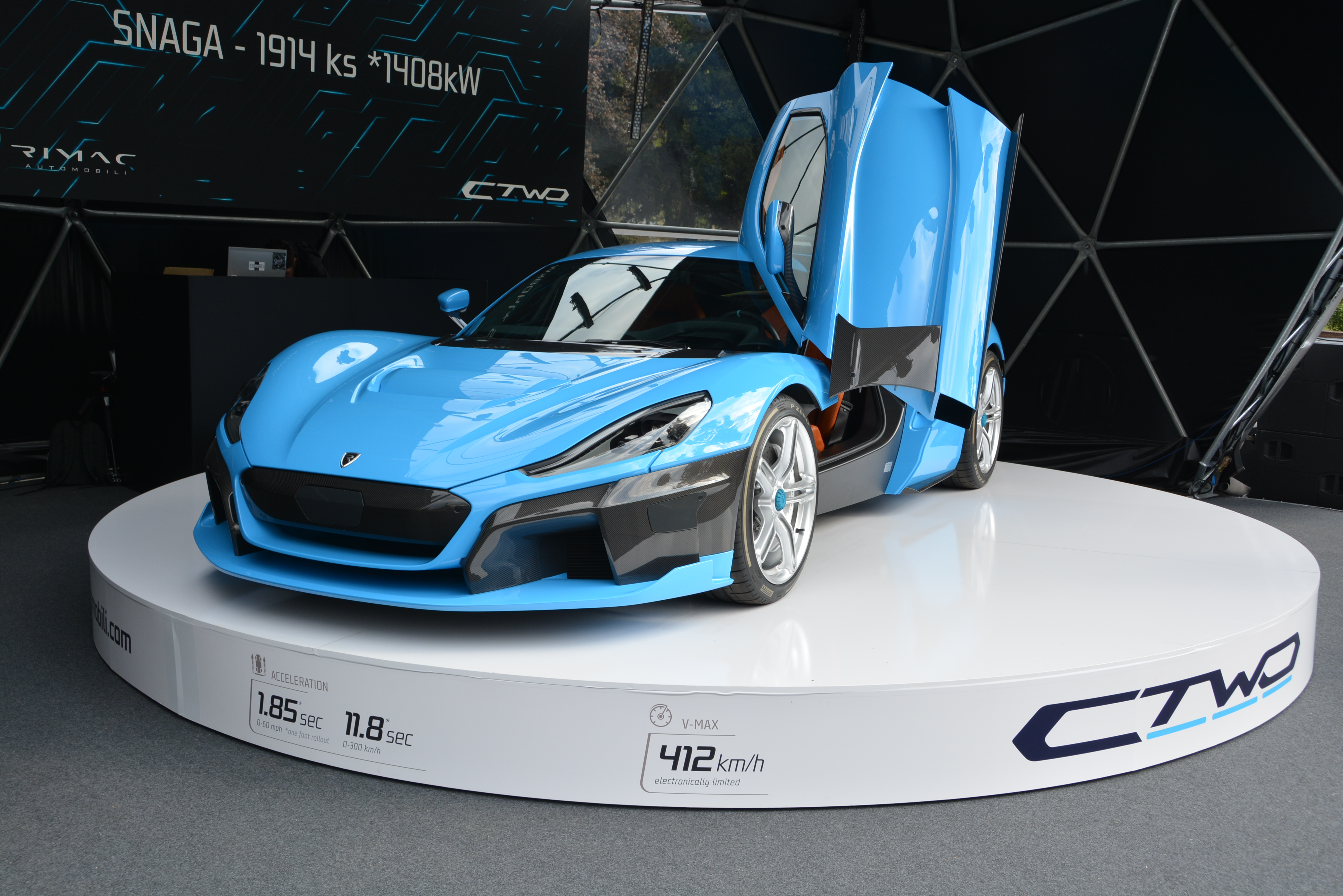 Presentation of Rimac C_Two in Strossmayer Square, Zagreb.